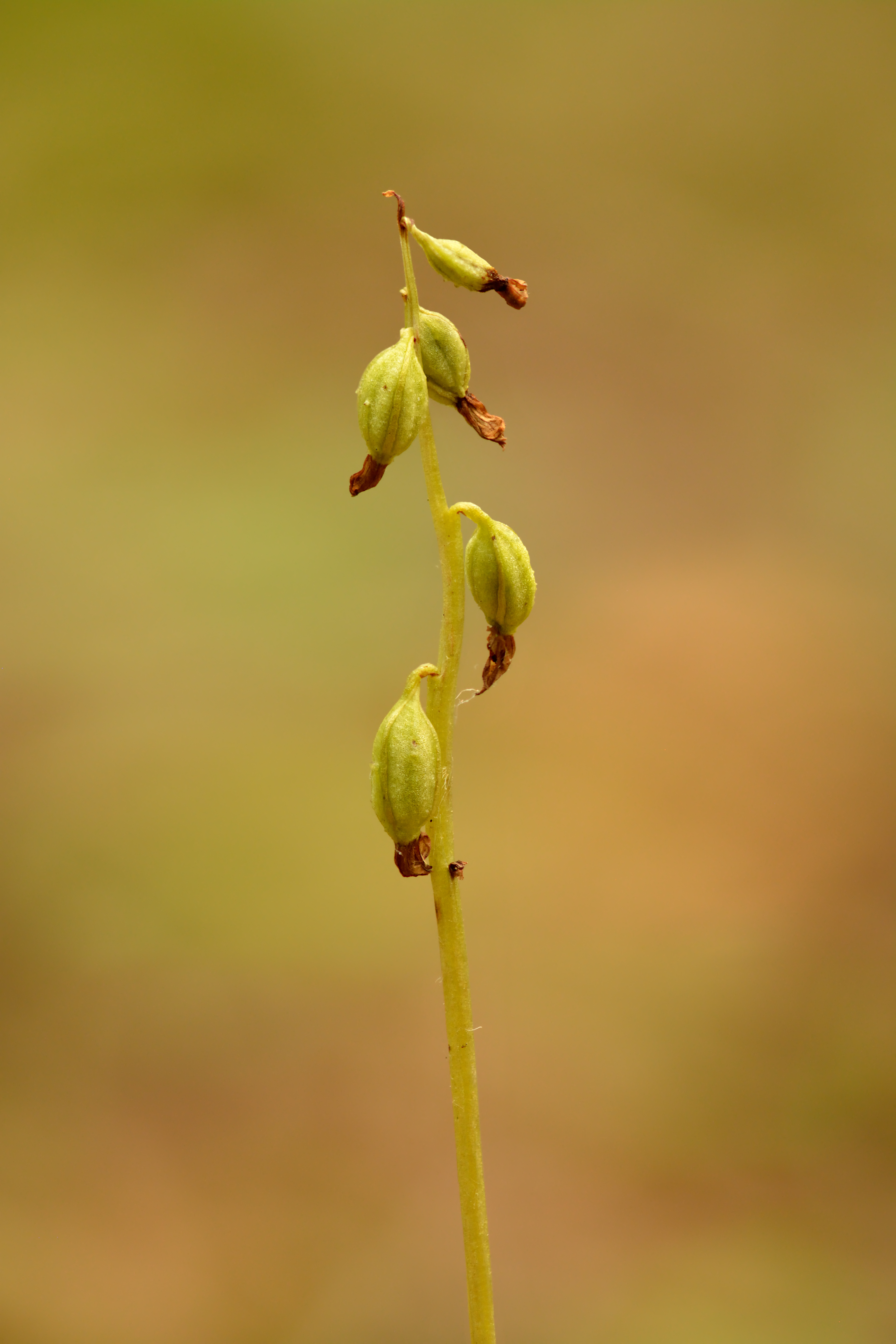 Infructescence of early coralroot